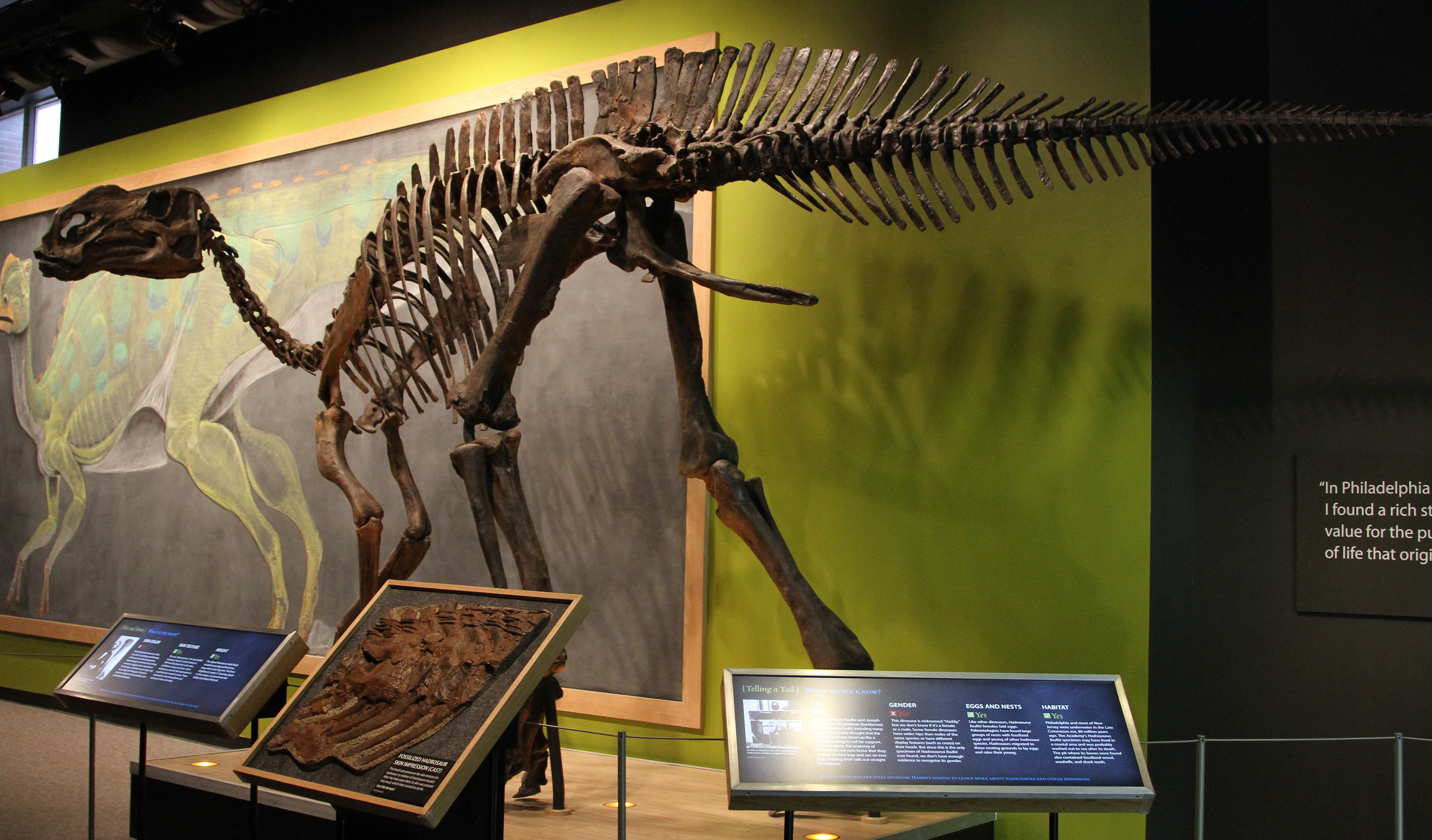 Academy of Natural Sciences of Drexel University 1900 Benjamin Franklin Parkway Philadelphia, PA 19103 March 18, 2013